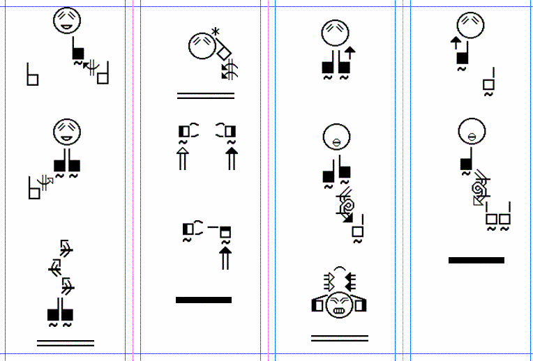 The nursery rhyme, Jack and Jill, as translated into American Sign Language poetry, written by Cherie Wren